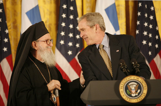 US President George W. Bush smiles as he welcomes His Eminence Archbishop Demetrios to the White House Friday, March 23, 2007, to celebrate Greek Independence Day and to recognize the contributions of Greek-Americans to American culture. This year's ceremony also recognized the 40th anniversary of the episcopacy of the Archbishop.